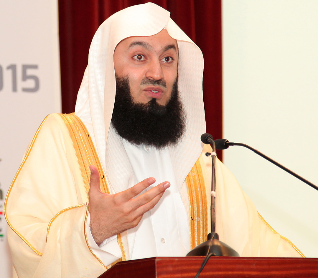 Mufti Menk Talking at Kerala State Business Excellence Awards 2015